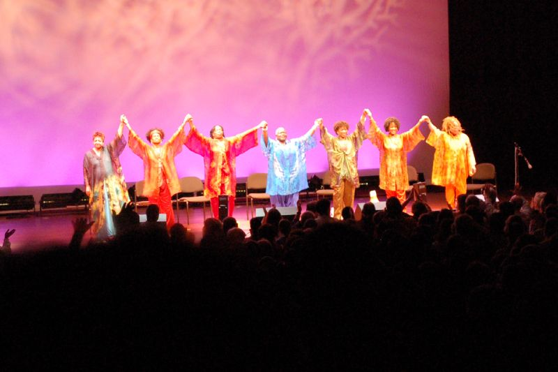 ...how lucky I feel to have been able to see them perform twice this year. They were just as lovely and amazing as the first time.